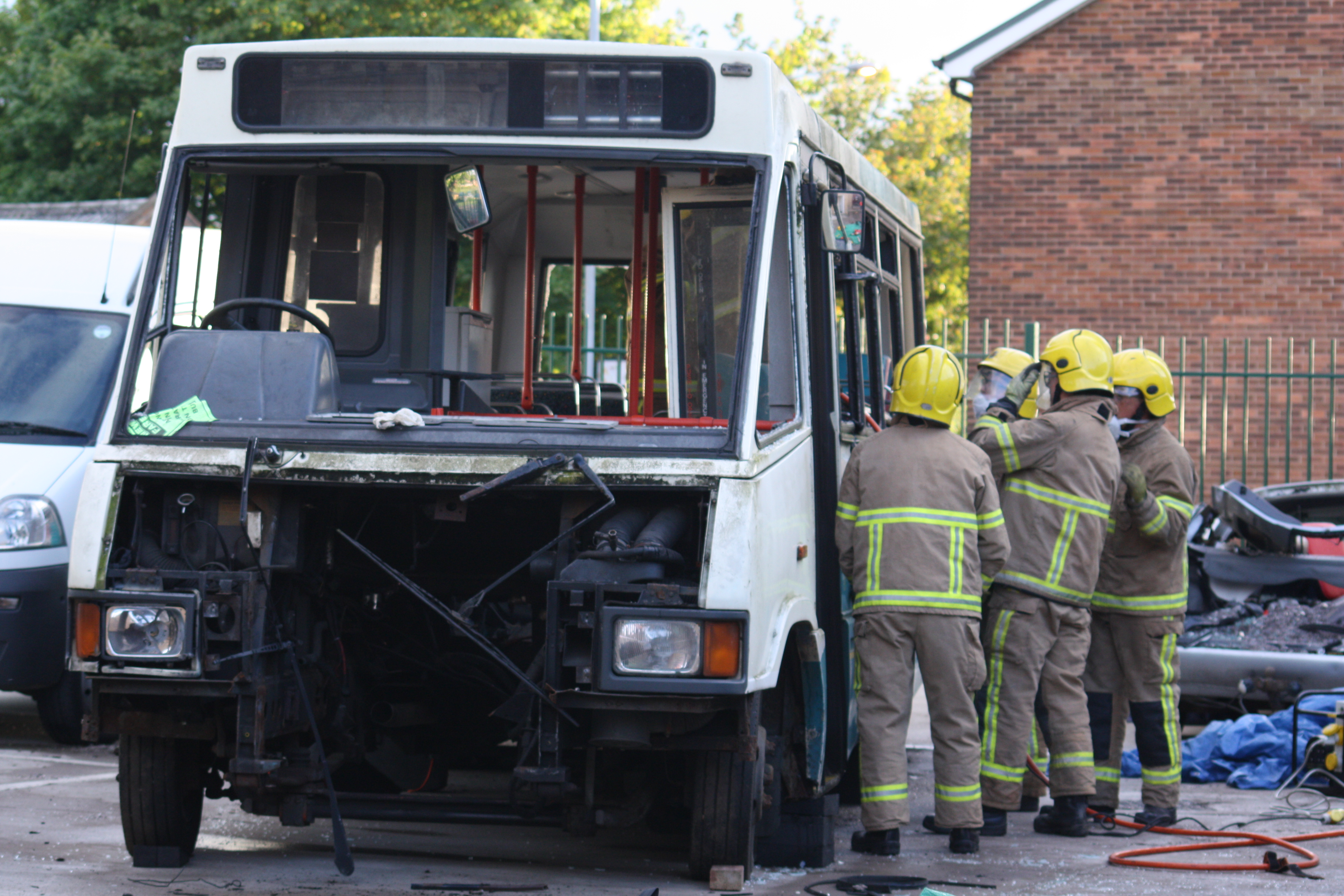 The scrapping of Arriva Optare Metroriders at Prudhoe fire station.